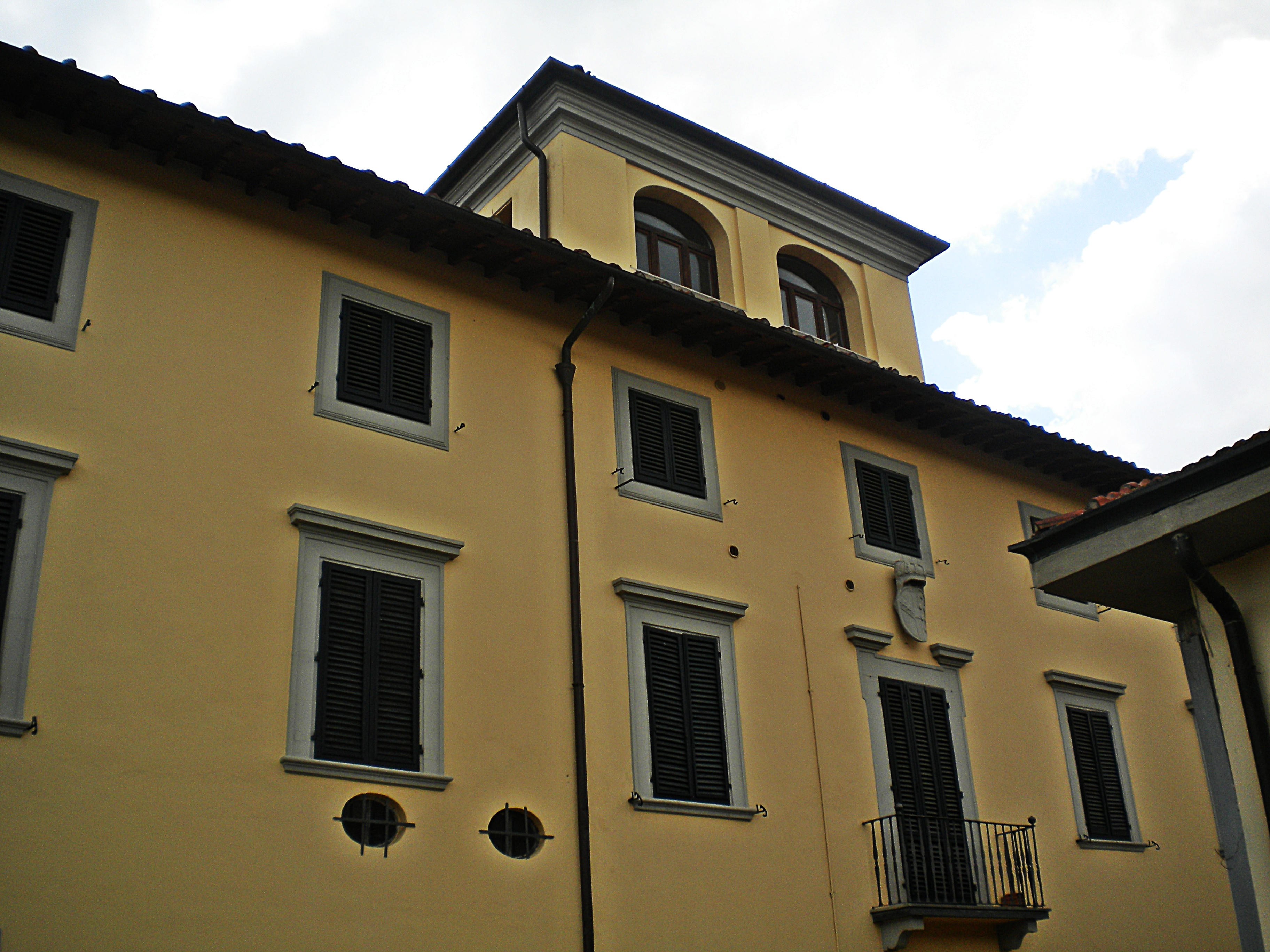 diocese palace